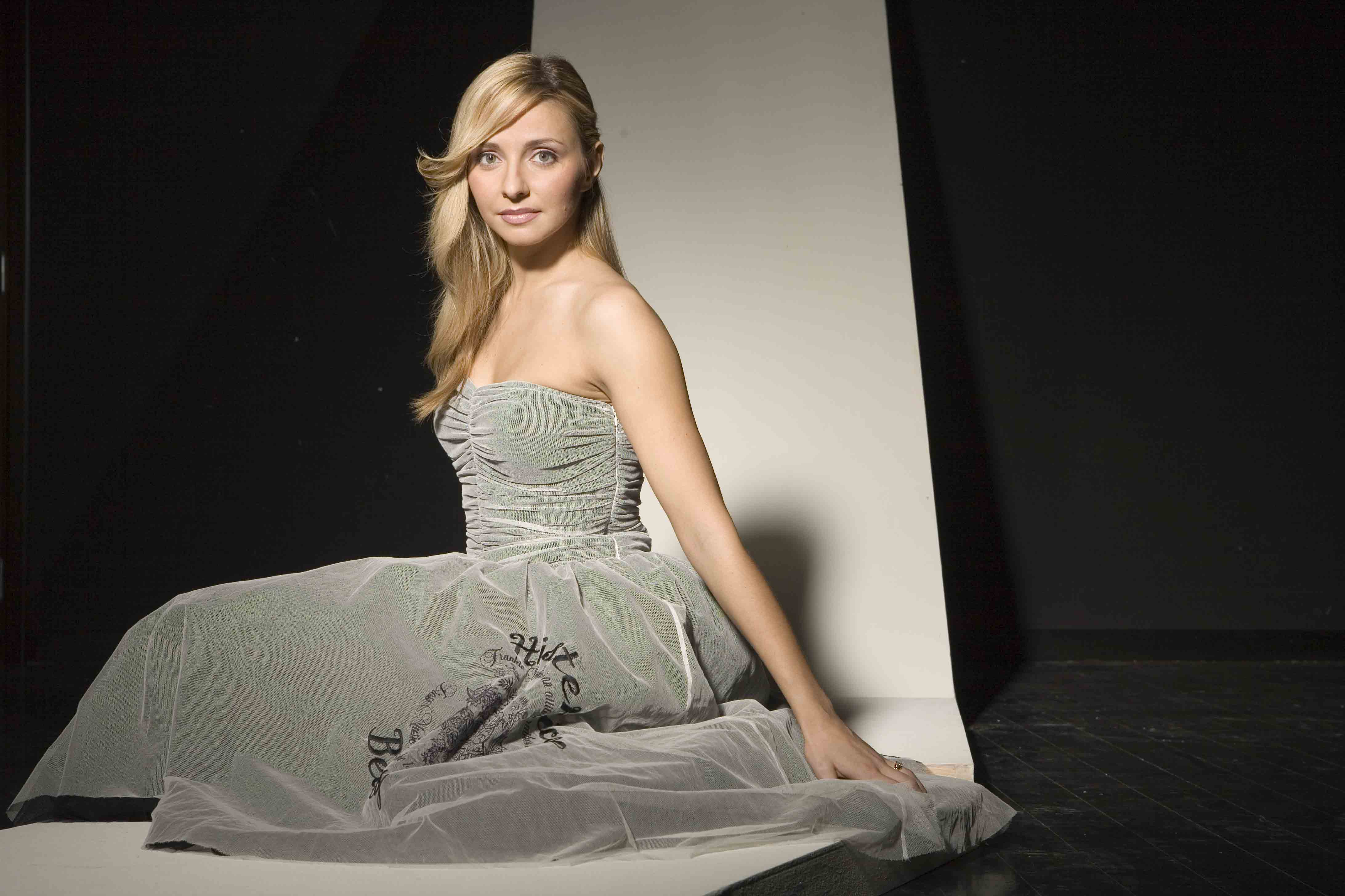 Navka Tatiana, russian ice dancer